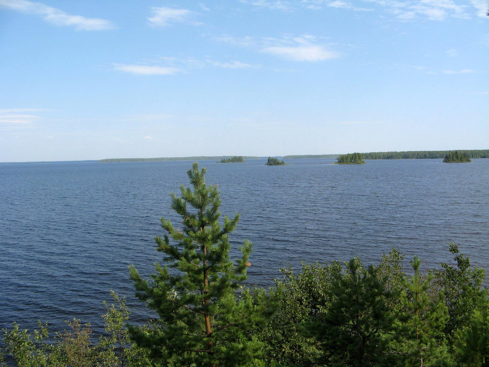 Vygozero near Segezha